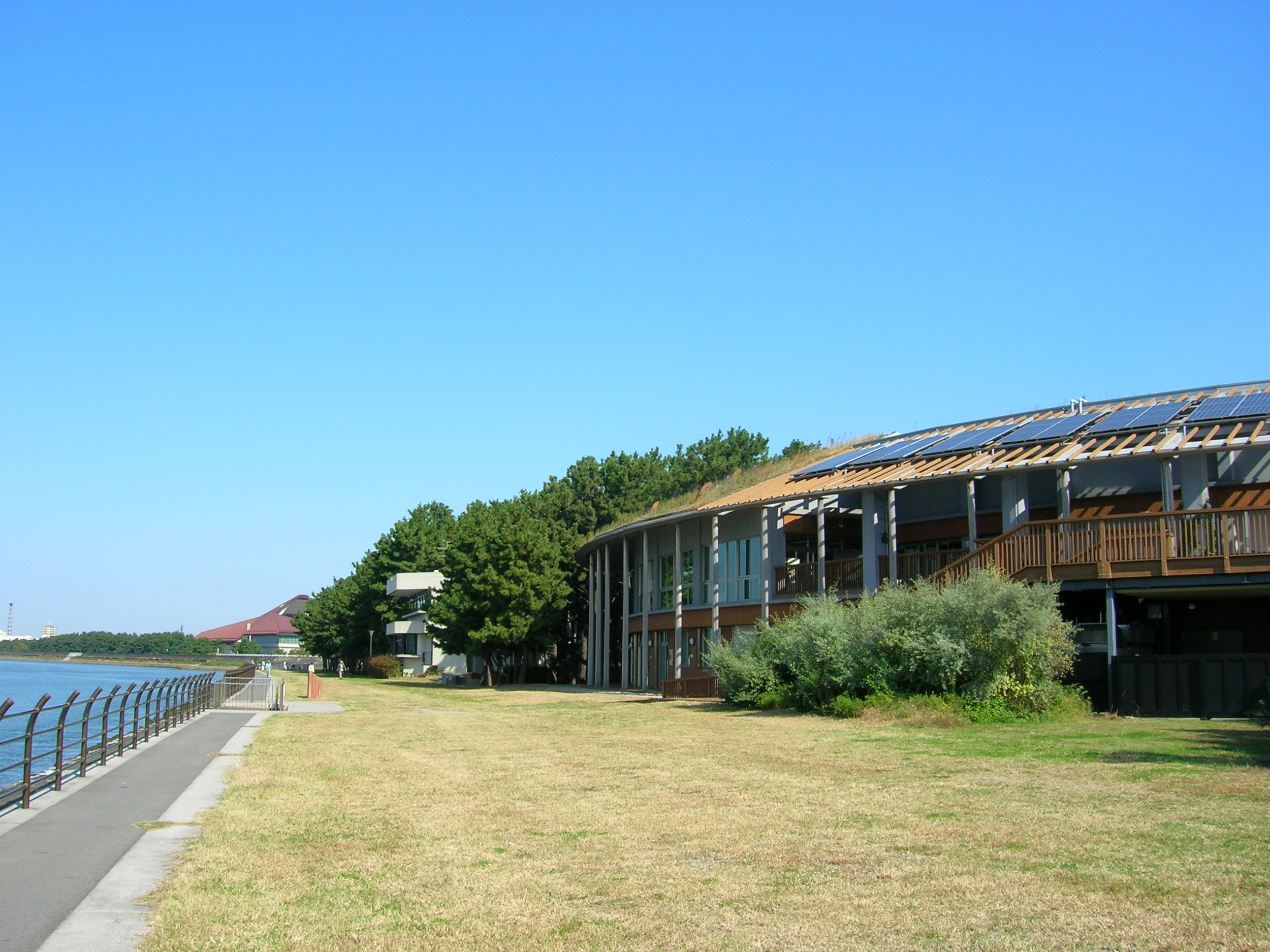 Inae Koen (Inae Park) Loc: Minato-ku, Nagoya city, Aichi Prefecture, Japan. 稲永公園 撮影場所 愛知県名古屋市港区